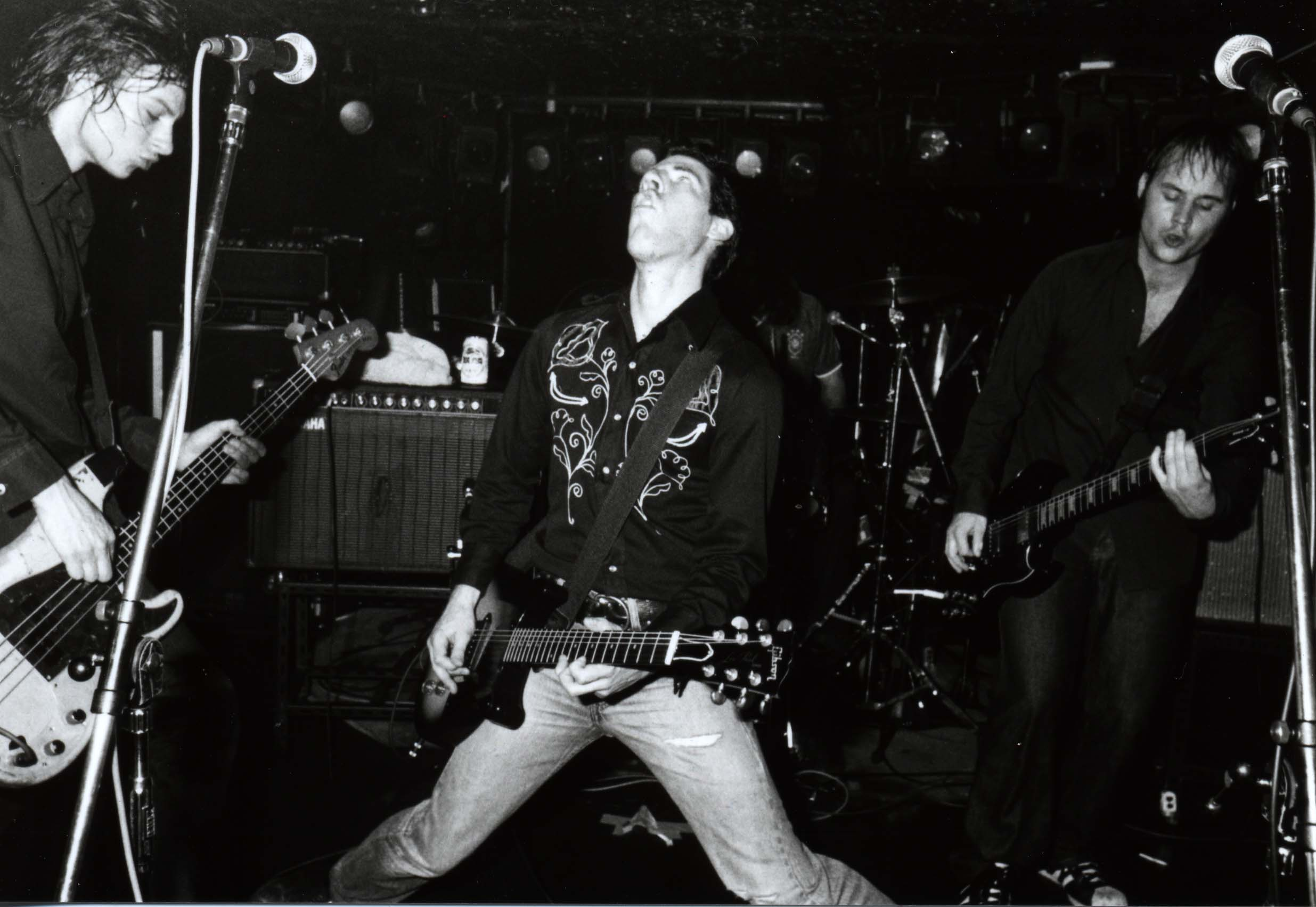 D4 at Shinjuku-Jam, first tour to Japan